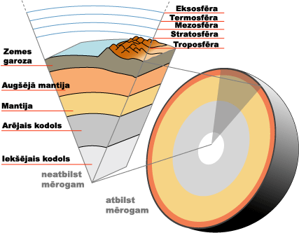 Earth crossection, translated in Latvian